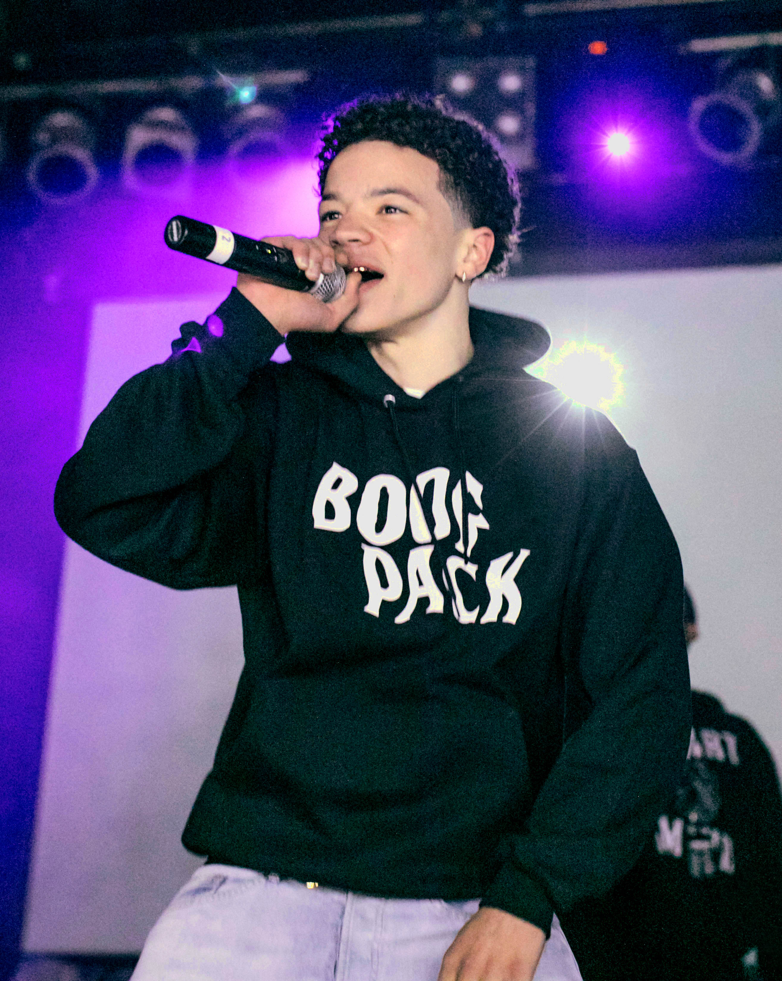 Shot in The Phoenix Concert Theatre May 1st, 2018 in Toronto. Photography by Curtis Huynh for The Come Up Show.